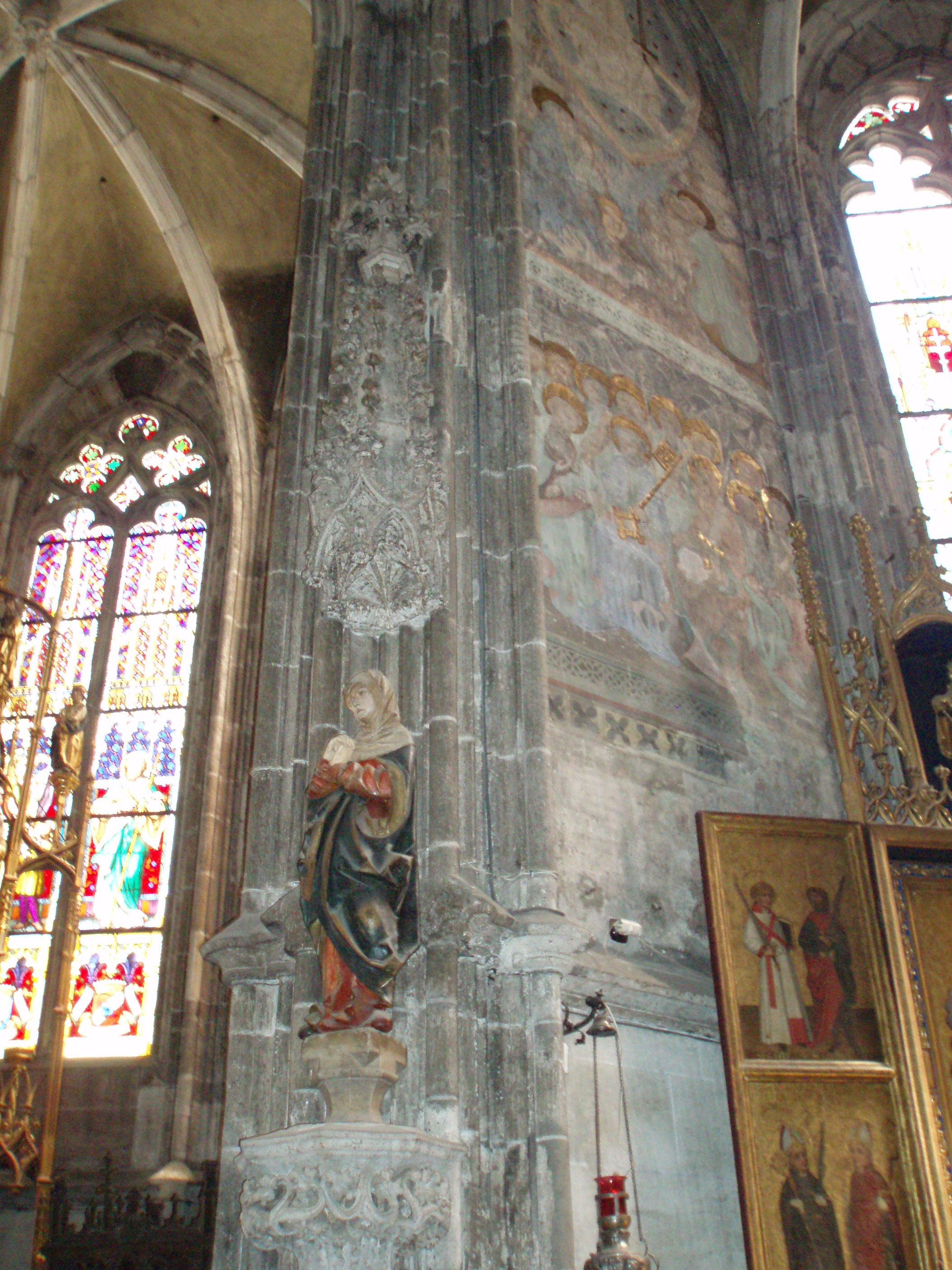 Southern side naves of St.Elisabeth Košice Gothic frescoes and gothic Virgin Maria Column